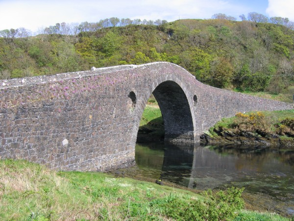 The Clachan bridge in Argyll, Scotland, also known as „Bridge over the atlantic“